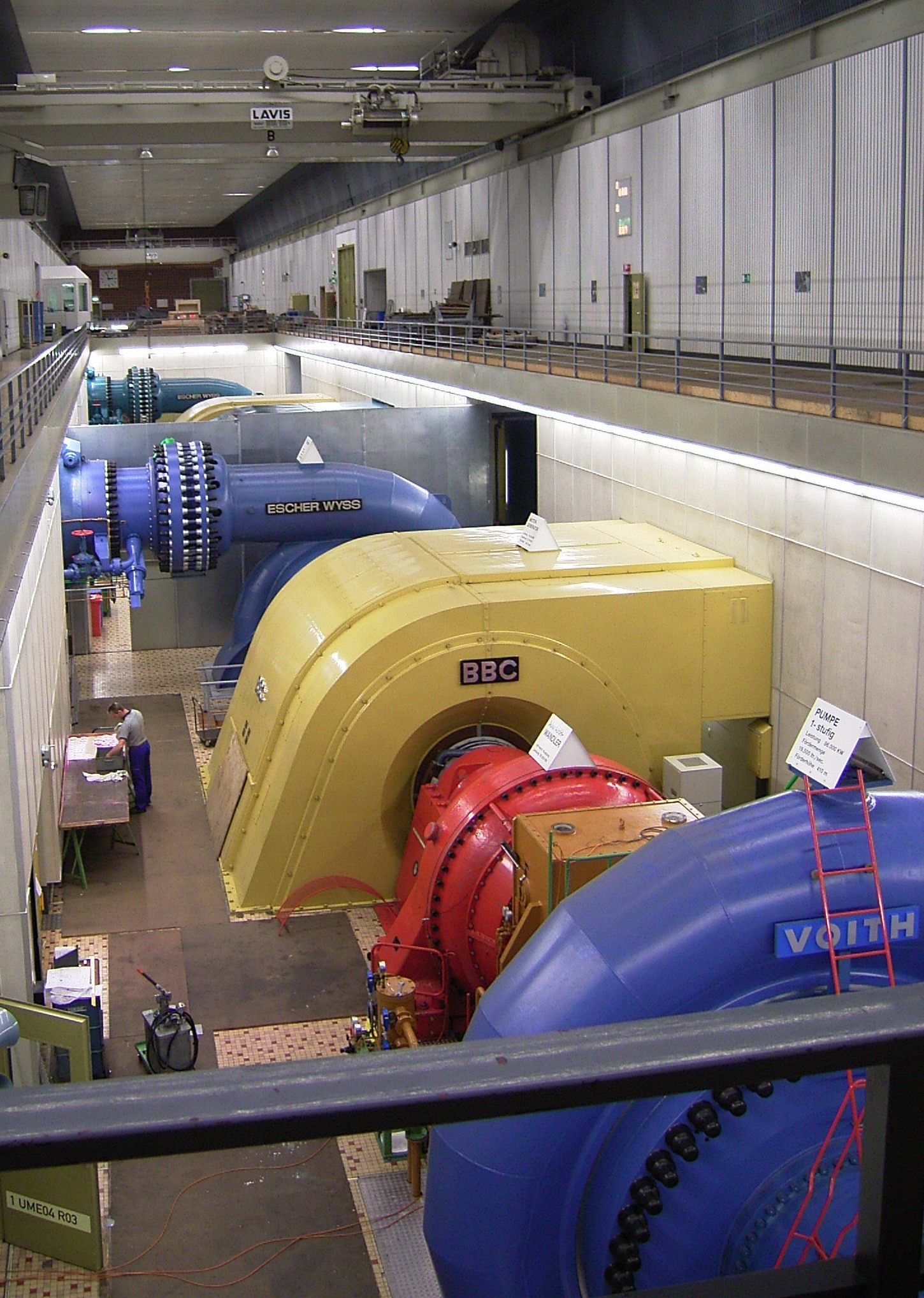 view into the cavern of the pumped storage plant Bad Säckingen, which belongs to Schluchseewerk AG